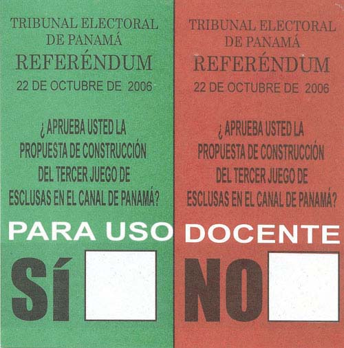 Image of the referendum ballot for october 22, 2006.